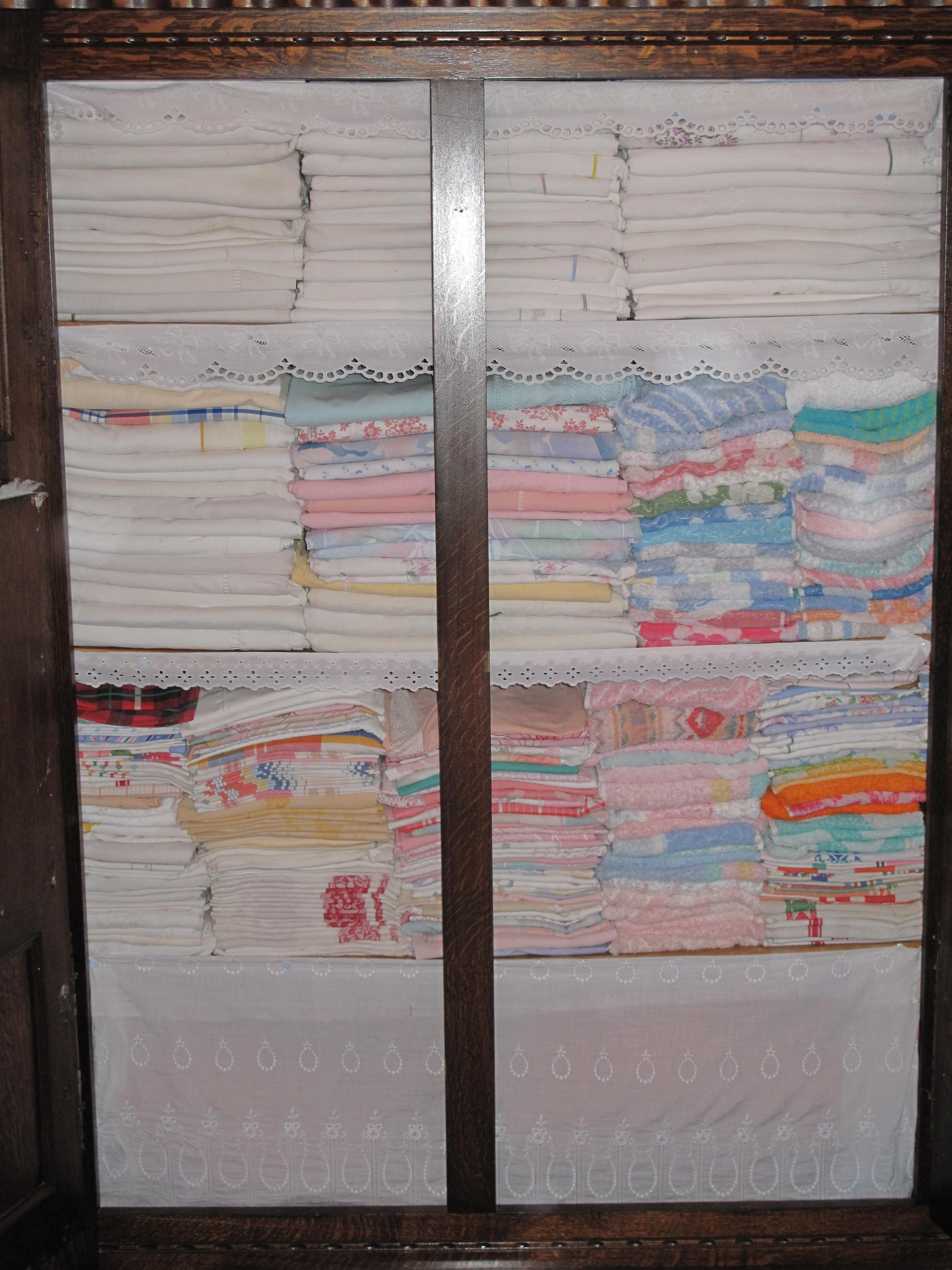 Cupboard with blankets, towels and linen dressed according tradition